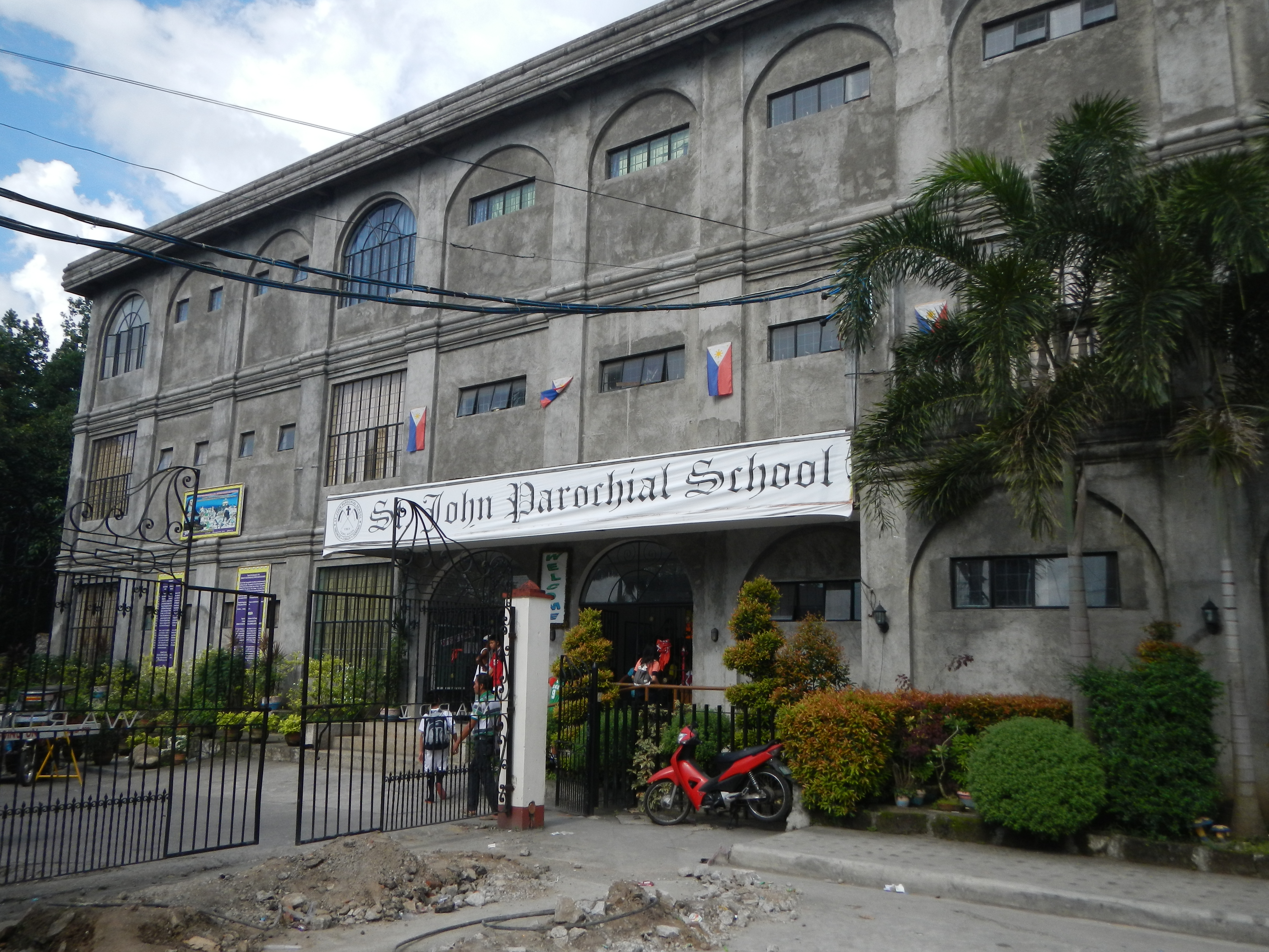 St. John Parochial School beside the 1600 Saint John the Baptist Parish Church of Tiaong Pan-Philippine Highway, Tiaong, 4325, Quezon belongs to the Roman Catholic Diocese of Lucena [1] [2] [3][4] [5] Coordinates: 13°57'43"N 121°19'24"E [6] [7] 13° 57' 43.62" N 121° 19' 23.76" E [8] was established in 1600 by the Franciscan priests formerly dedicated to Senor Santiago apostle; In 1606 the Order relinquished the administration of the parish to the Augustinians, but on April 2, 1794 the ministry of the said congregation was returned to the supervision of the Franciscans, then dedicating the church to San Juan Bautista -- Tiaong, Quezon [9] [10] -- The Municipality of Tiaong (Filipino: Bayan ng Tiaong) is a first class municipality in the province of Quezon,[11] Philippines. It lies in the deep coconut region of Quezon, some 96 kilometres (60 mi) southeast of Manila. According to the 2011 census, it has a population of 98,102 people. -- Tiaong municipal building or Town Hall[12] 2013 Election Tiaong [13] 13° 57' 33.49" N 121° 19' 23.62" E [14] [15] Coordinates: 13°55'28"N 121°19'43"E.[16] Vicariate of St. Simon Vicar Forane: Father Alvin E. Cabungcal Address: Tiaong 4325 Quezon, Philippines Canonical Erection: 1670 Titular: St. John the Baptist Parochial Feast: June 24 Parish Priest: Father Romeo P. Padillo Parochial Vicar: Father Florencio V. Nombrefia[17] [18]